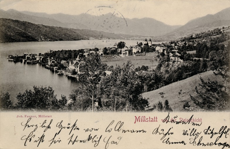 Millstatt near Spittal an der Drau / Carinthia / Austria / EU.